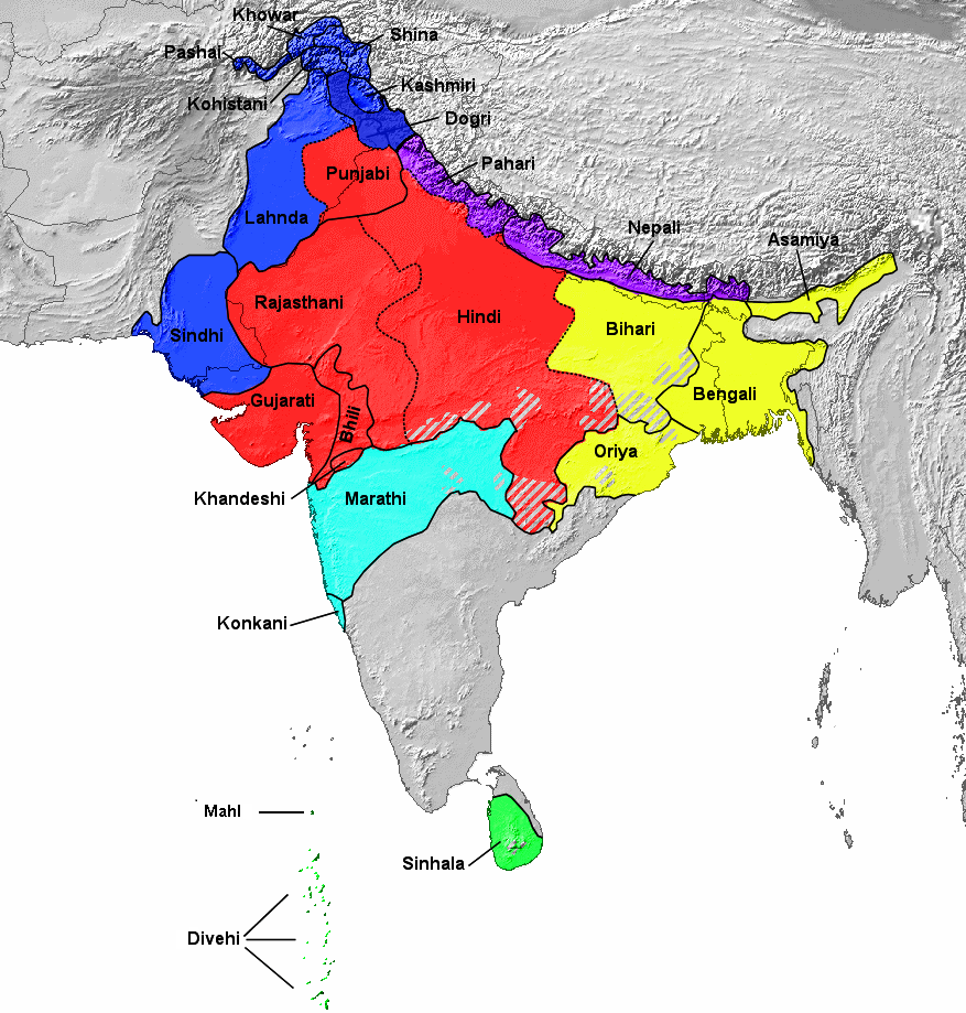 1978 map showing Indo-Aryan languages, grouping according to SIL Ethnologue (Urdu is not shown because it is mainly a lingua franca with no prevalence as a first language.) Central and East Central zones Northern zone Northwestern zone Eastern zone Southern zone Insular